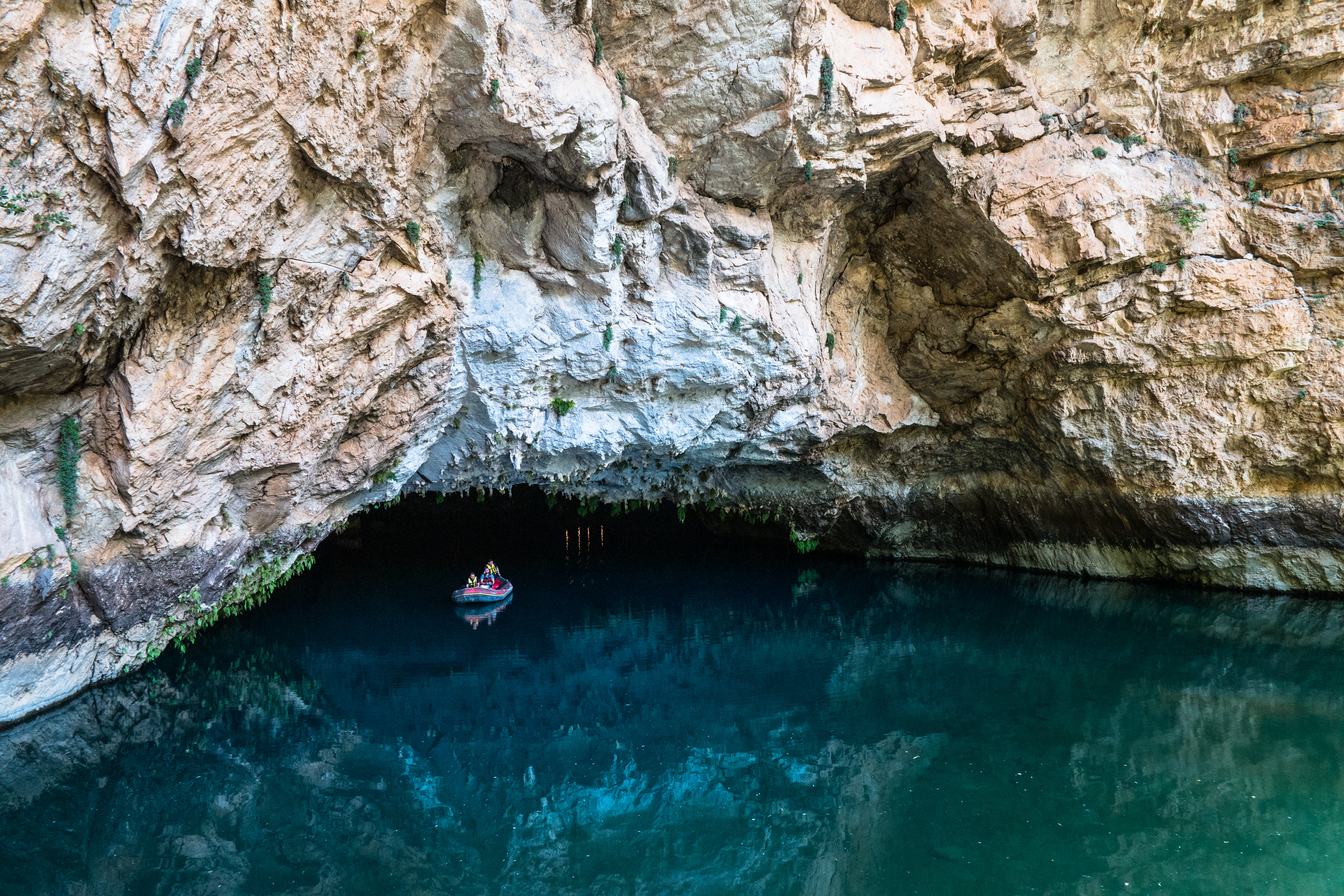 Altinbesik Cave National Park is located within Antalya province in the Mediterranean region of Turkey. Altinbesik Cave and its surroundings have been declared as a national park in 1994.